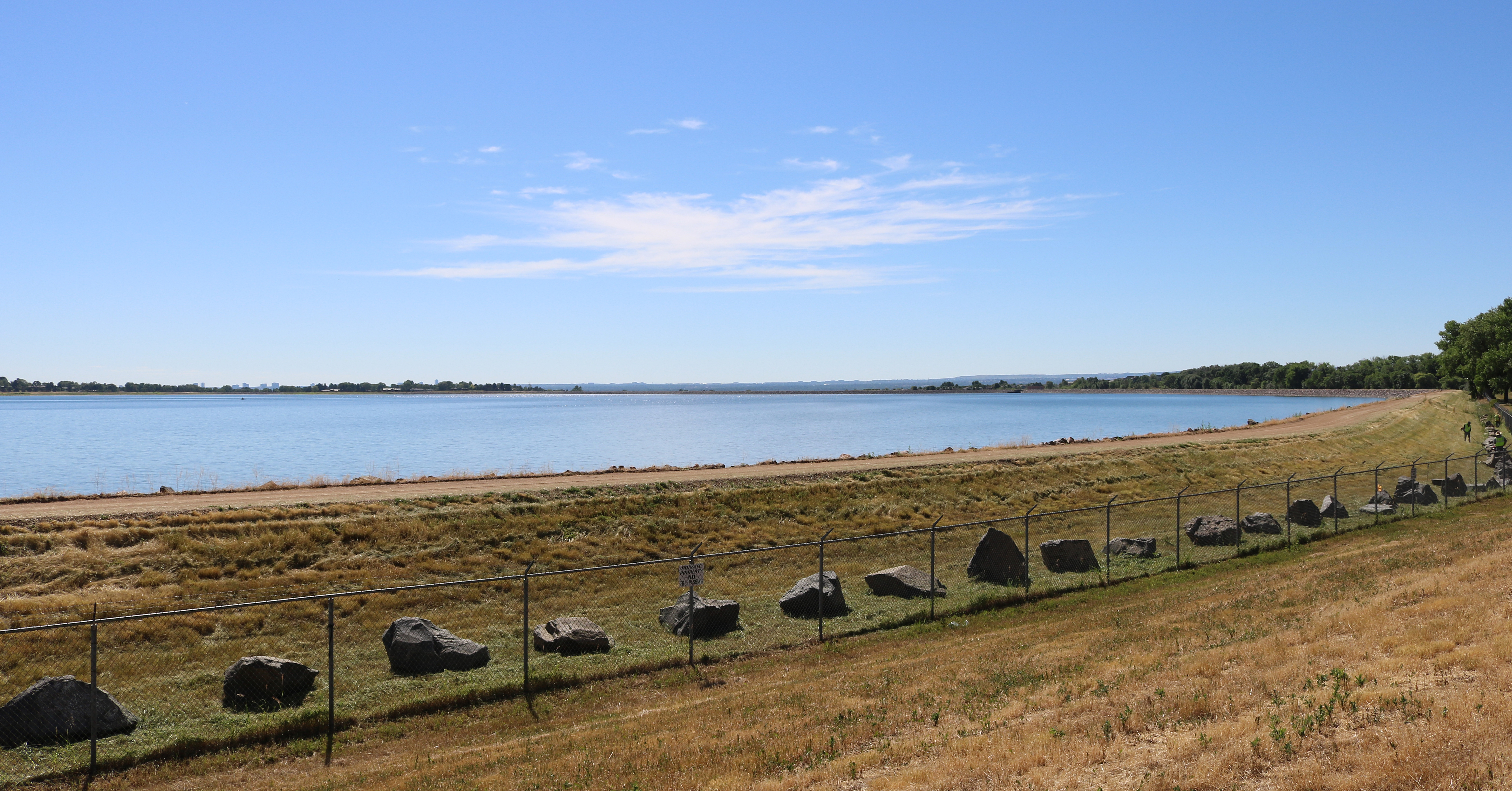 Marston Lake in Denver, Colorado. It's actually a reservoir, and it's owned by Denver Water.